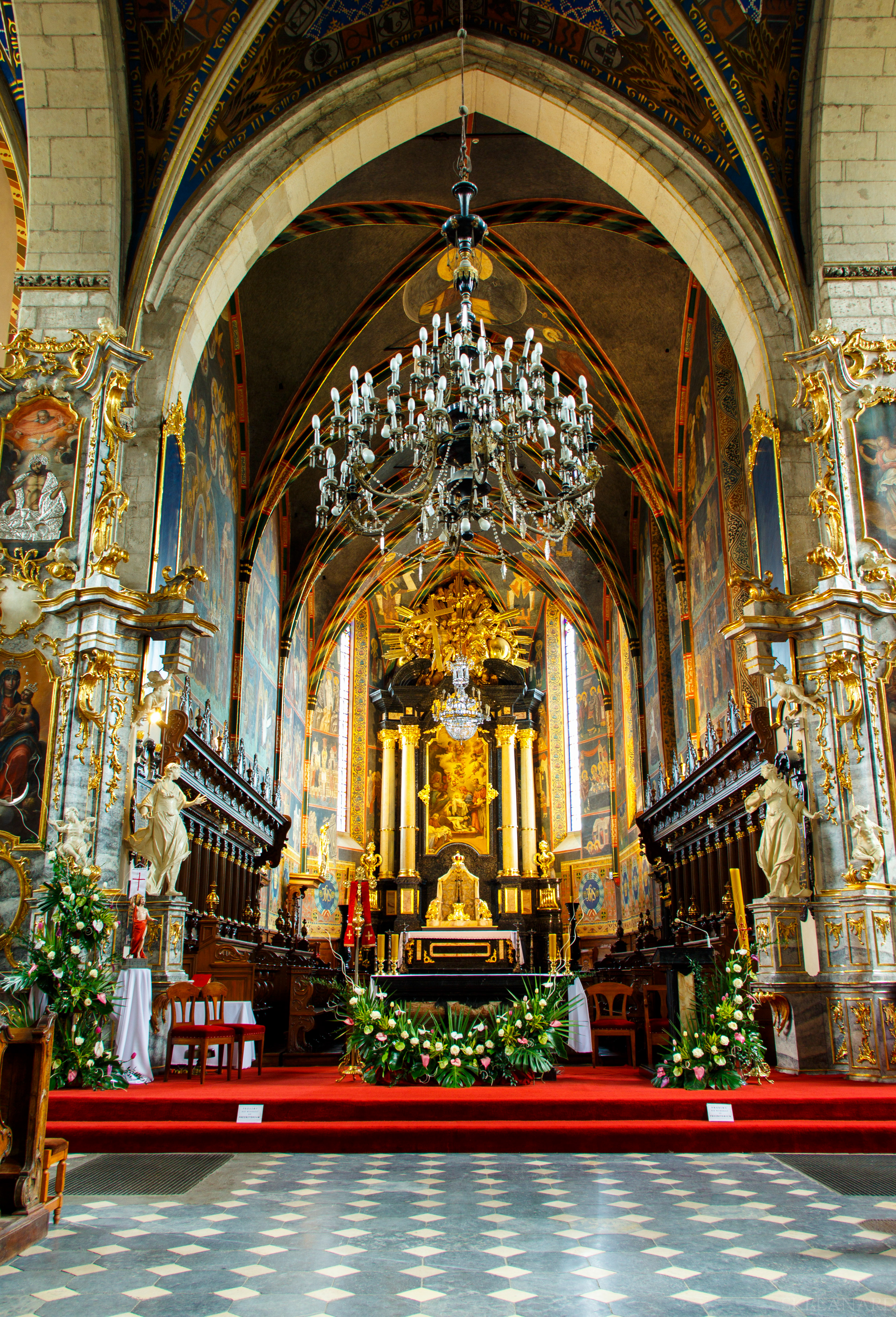 Sandomierz cathedral altar